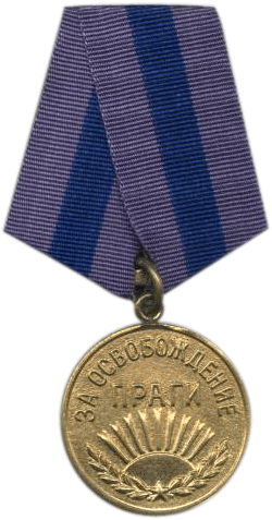 Soviet Медаль за освобождение Праги - Medal za osvobozhdenye Pragi - Medal for the liberation of Prague - WWII military award.